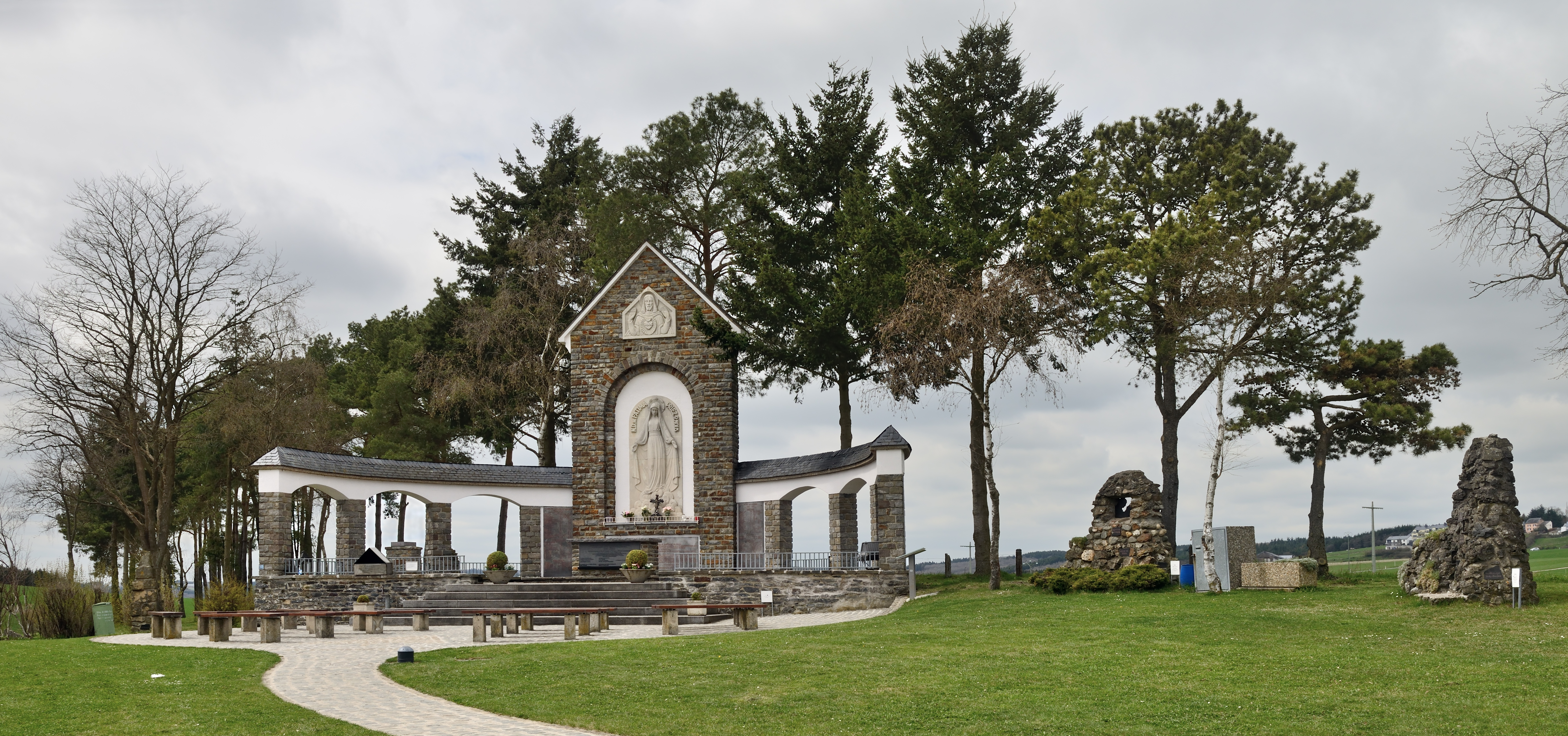 Luxembourg, Wiltz: Our Lady of Fátima monument.